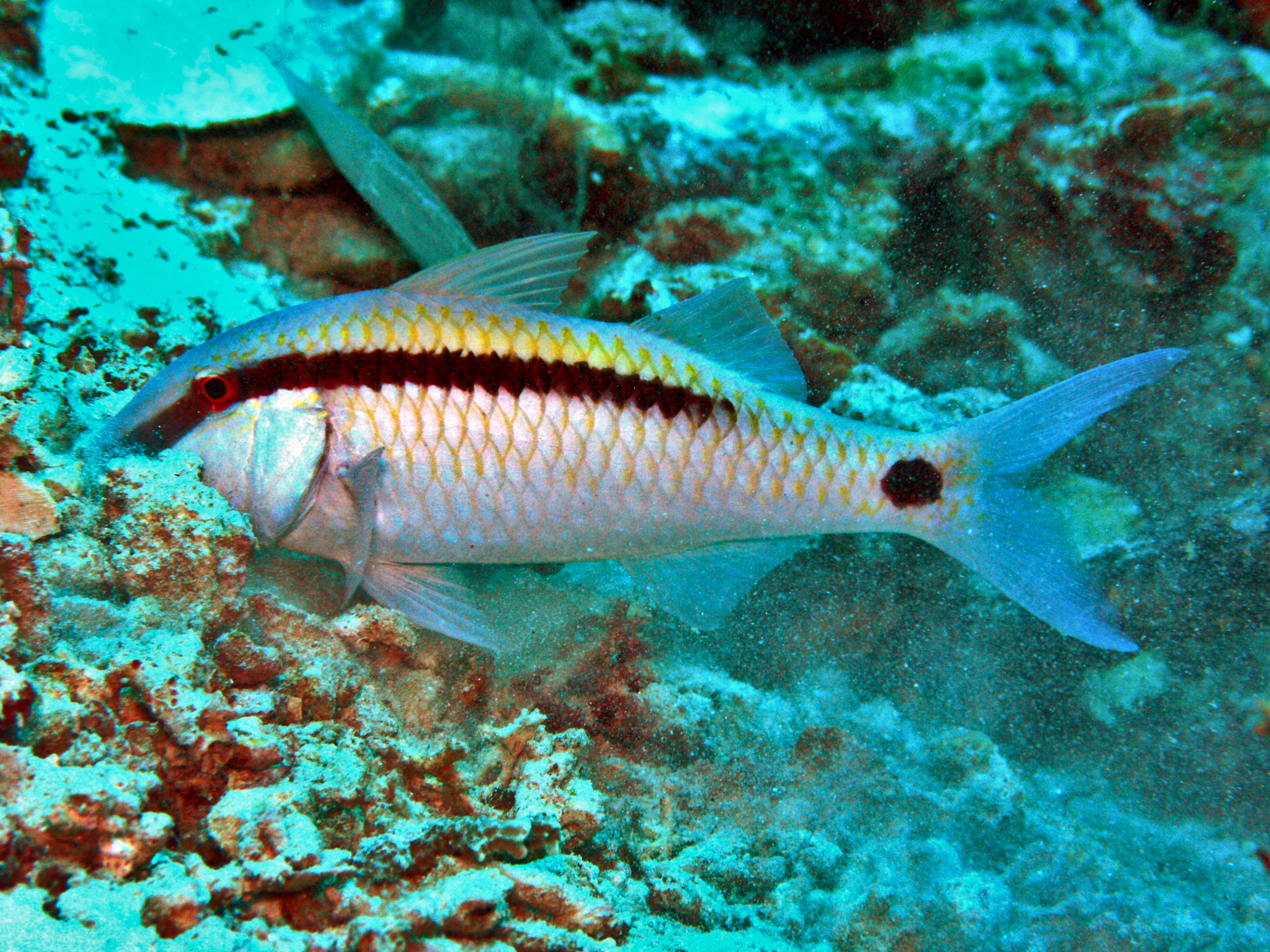 Image of Dash-and-dot goatfish, Parupeneus barberinus. Taken off Bunaken Island, North Sulawesi, Indonesia.